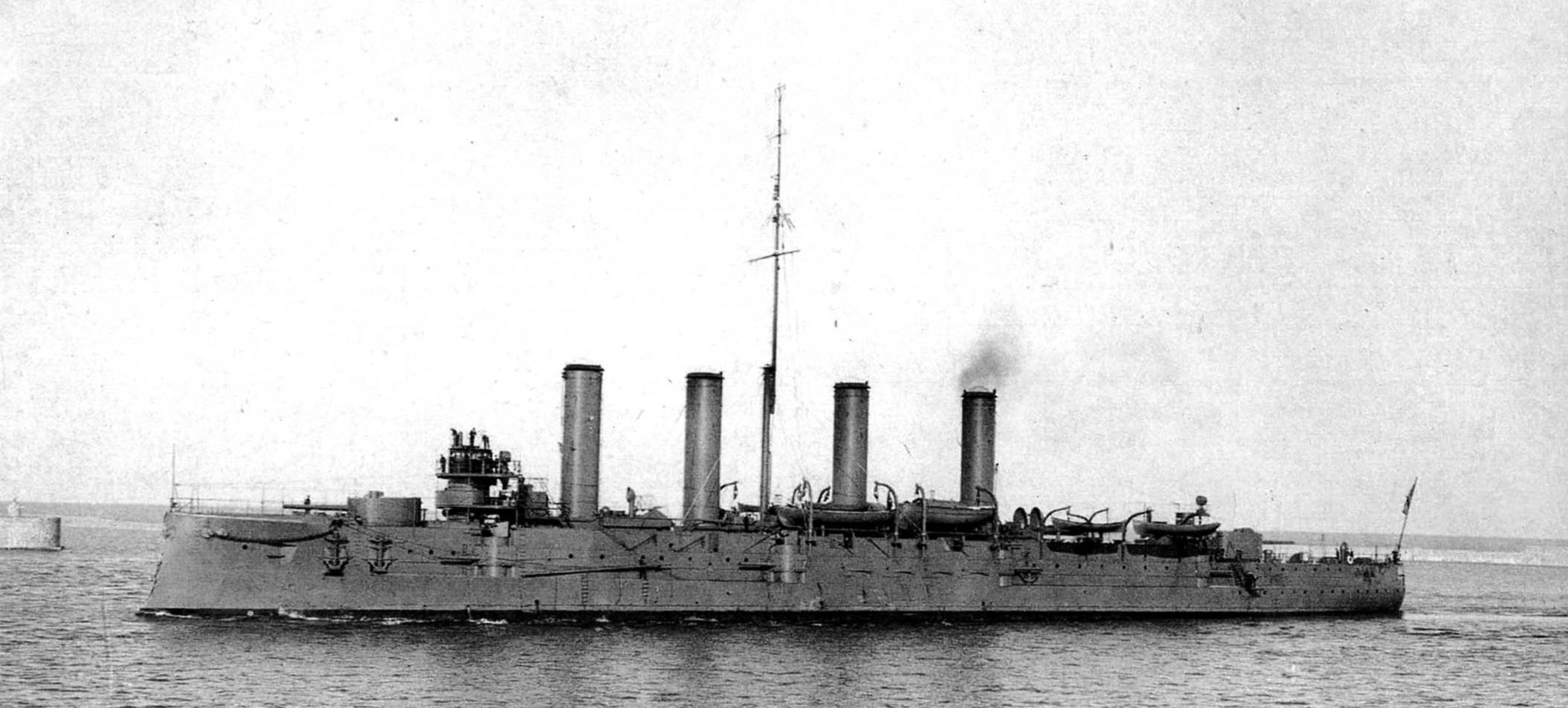 Imperial Russian armoured cruiser Admiral Makarov, 1909-1911.